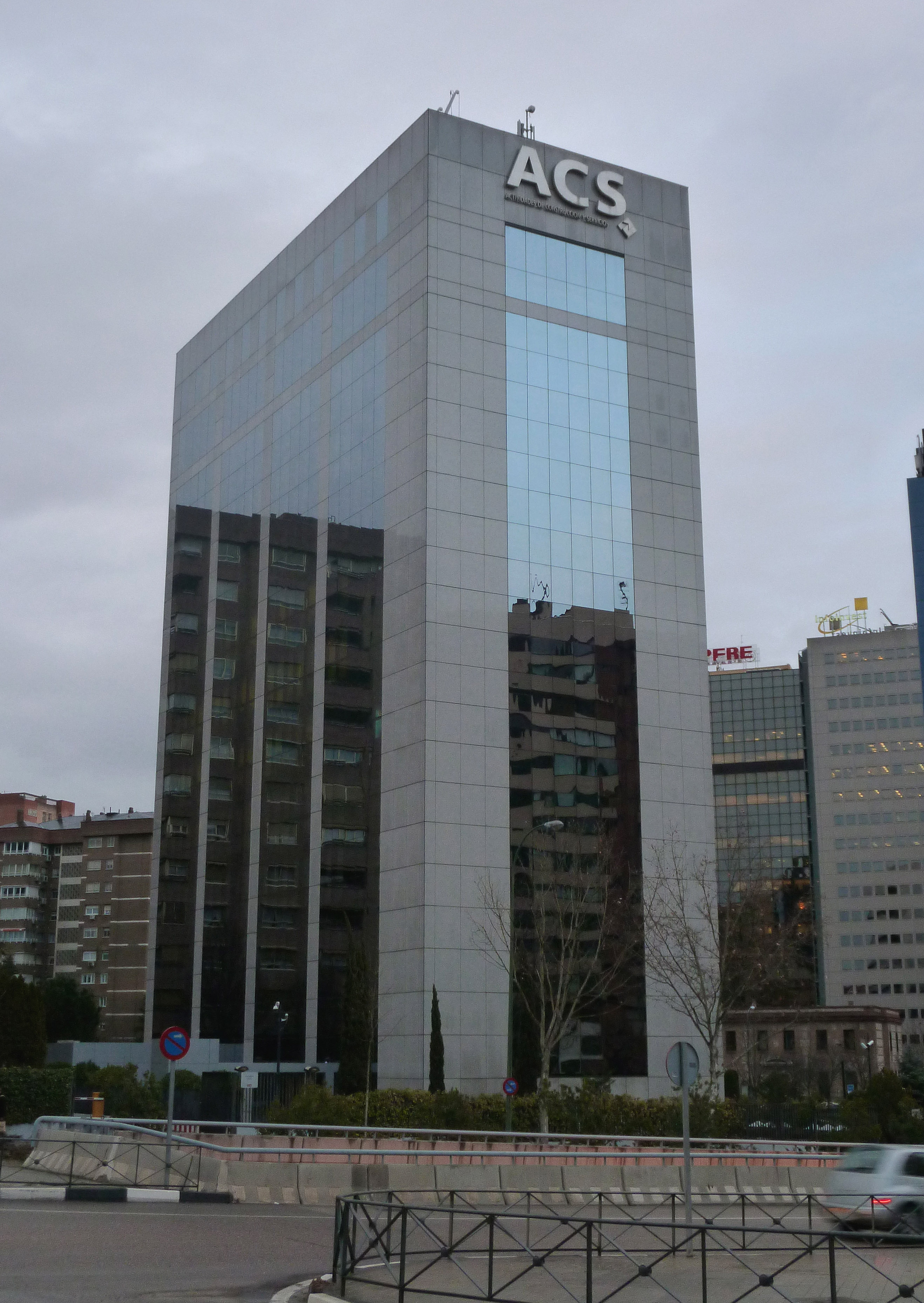 View of ACS headquarters, at 102 Avenida de Pío XII (street) in Chamartín district in Madrid (Spain).